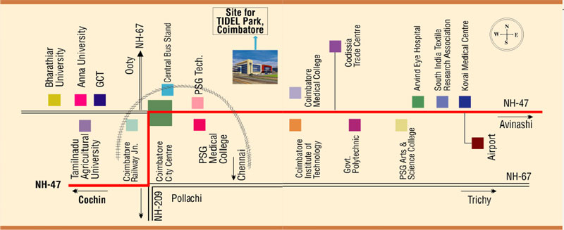 Tidel Park Coimbatore Location Map